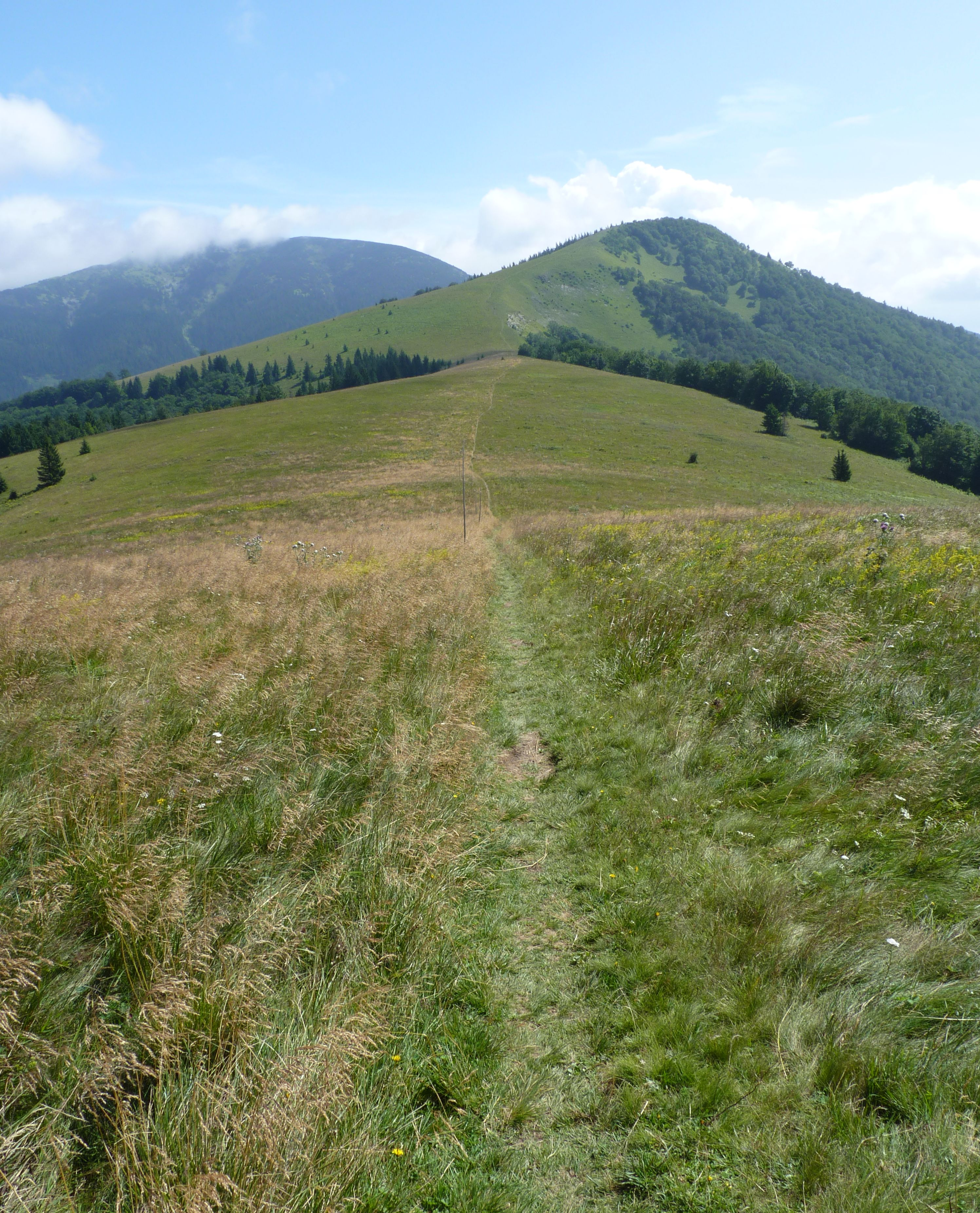 Low Tatras, Slovakia